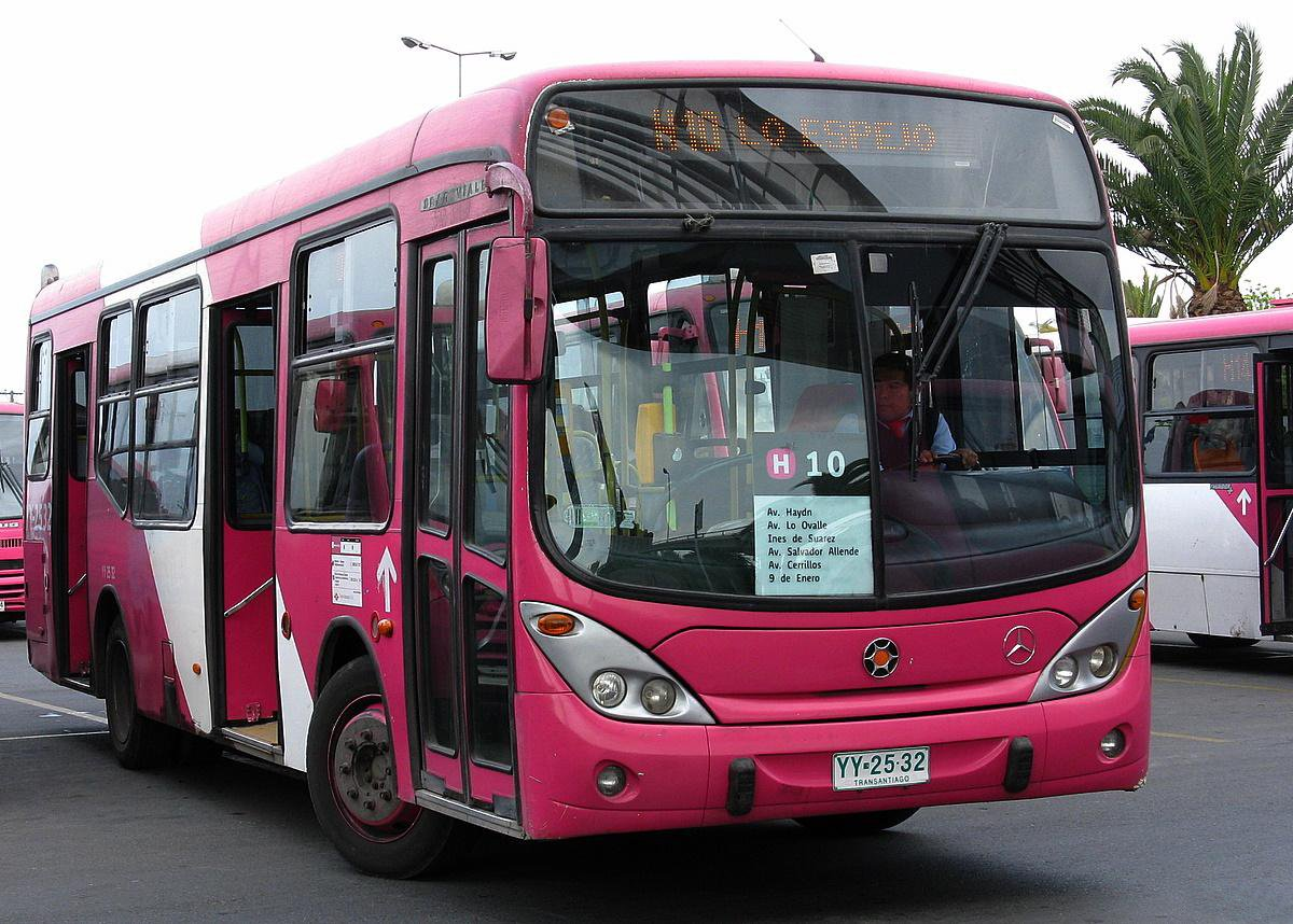 Marcopolo Gran Viale bus (reg. YY-25-32) with Mercedes-Benz chassis in Santiago de Chile, Chile. Transantiago H10.